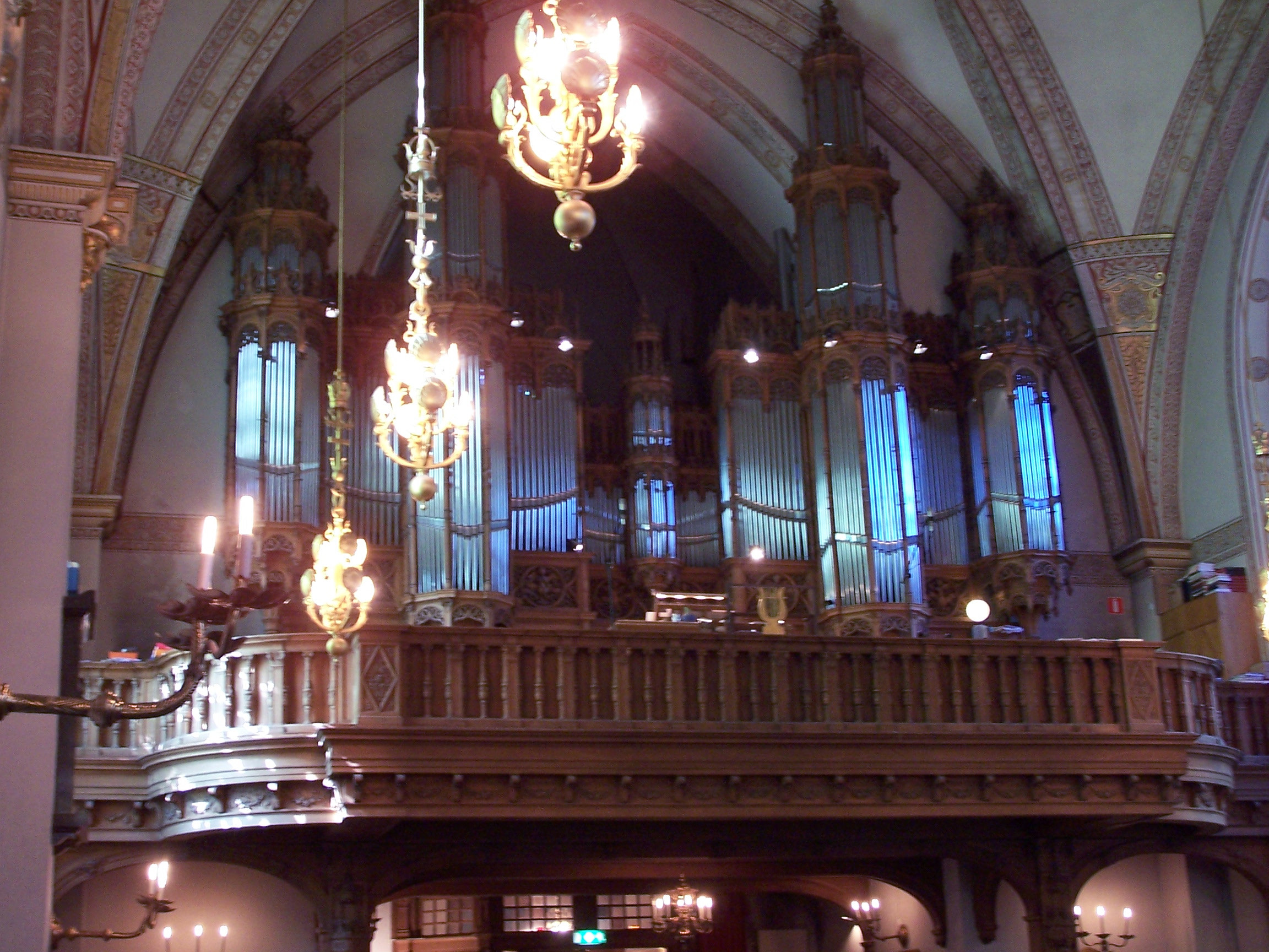 Klara kyrka (Klara church), Stockholm, Sweden - Organ.